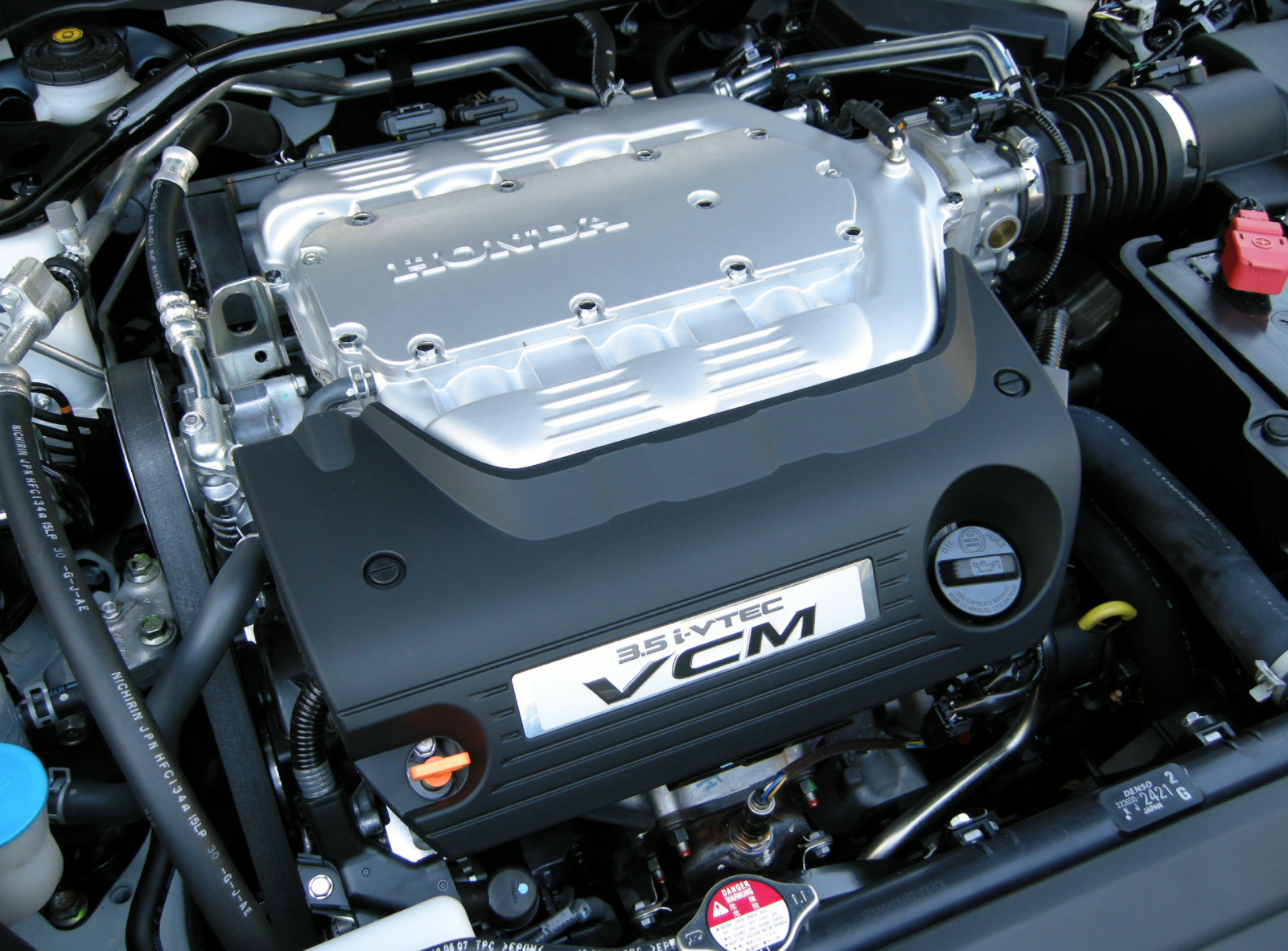 Honda J35A 3.5L V6 SOHC i-VTEC Variable Cylinder Management(VCM) Engine on 2008 Honda Inspire